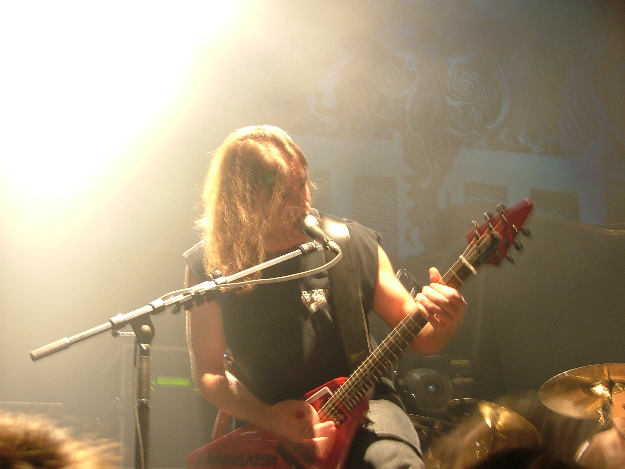 Jeff Waters of Canadian thrash metal band Annihilator at a concert in Linz